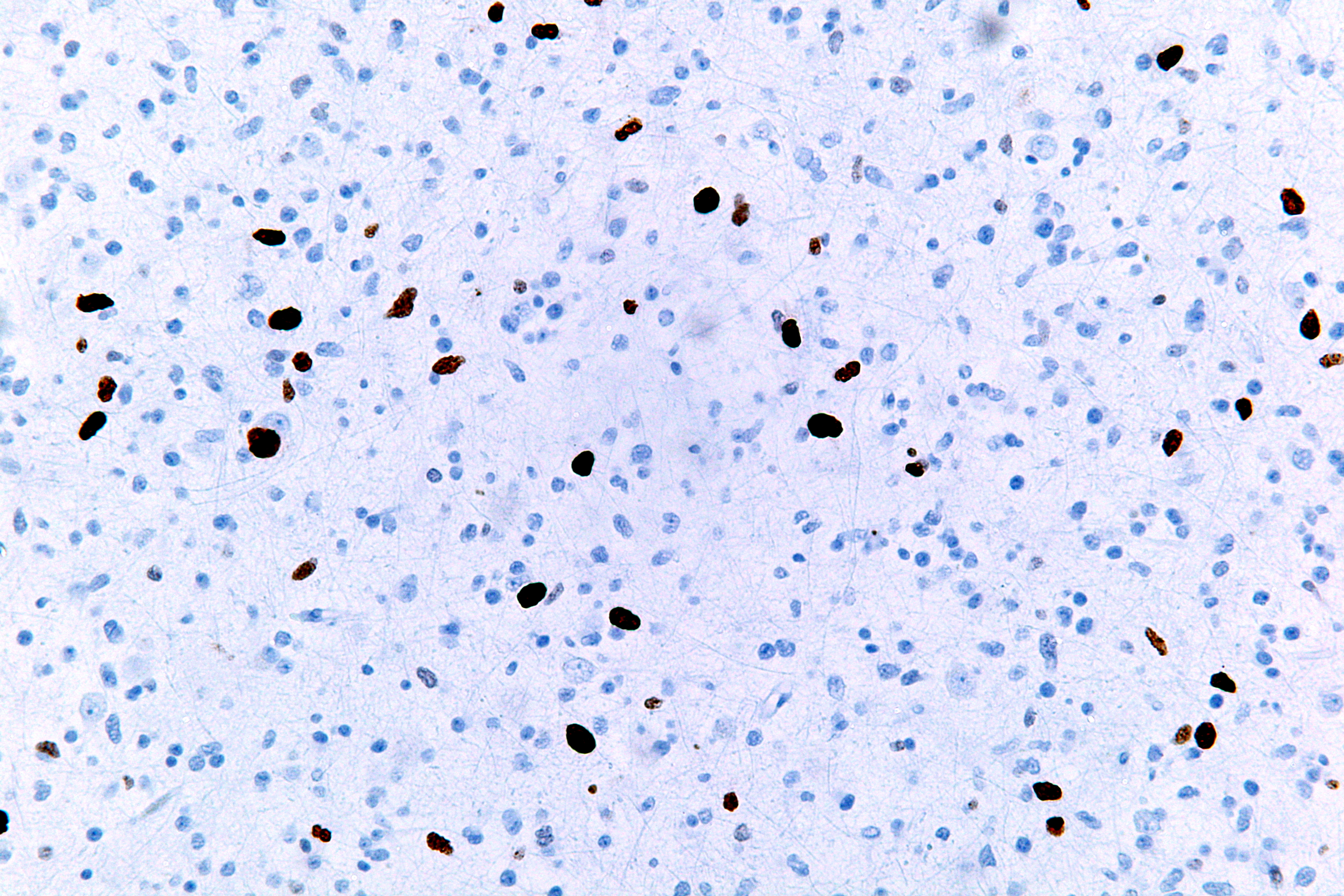 High magnification micrograph of an anaplastic astrocytoma. Ki-67 immunostain. The typical features are present: Marked nuclear atypia. Elongated nuclei (consistent with derivation from an astrocyte ). Mitoses. Fine fibrillary processes (consistent with a glial cell population). Cytoplasmic staining of atypical cells with GFAP. p53 immunohistochemical stain positivity. High proliferative rate based on Ki-67 staining. Related images Low mag. Intermed. mag. High mag. Very high mag. GFAP. Very high mag. p53. Very high mag.